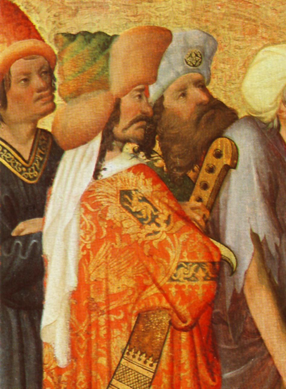 detail from the seventh painting in Barbara altar by Master Francke